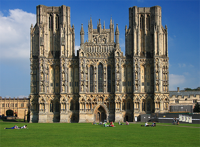 The West Front - Wells Cathedral The magnificence of the west facade of the cathedral is quite breathtaking. Flanked by two towers, the West Front was begun in 1215, and when completed it was at the time the largest collection of figurative statuary anywhere in the western world. It depicts the biblical retelling of the history of the world, and shows Christ flanked by angels above statues of disciples and kings.